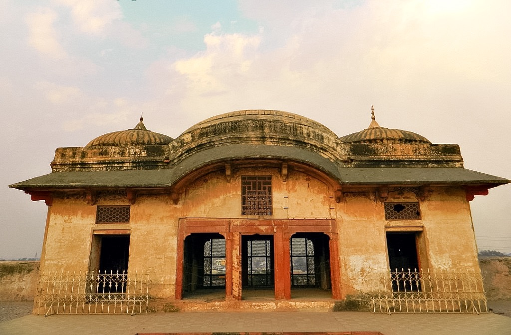 Lahore Fort pavilion